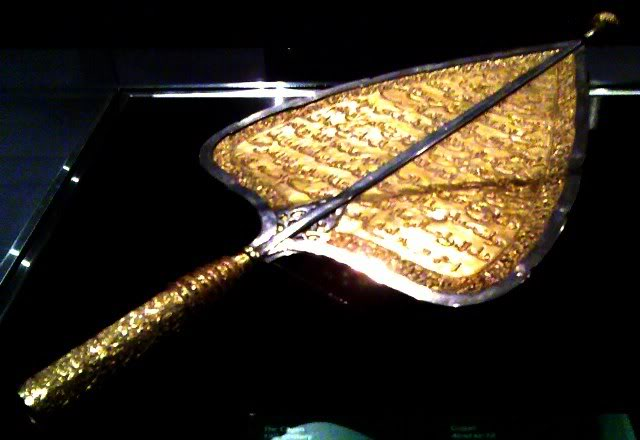 Cogan from Old Johor. dated at least from 18th century.